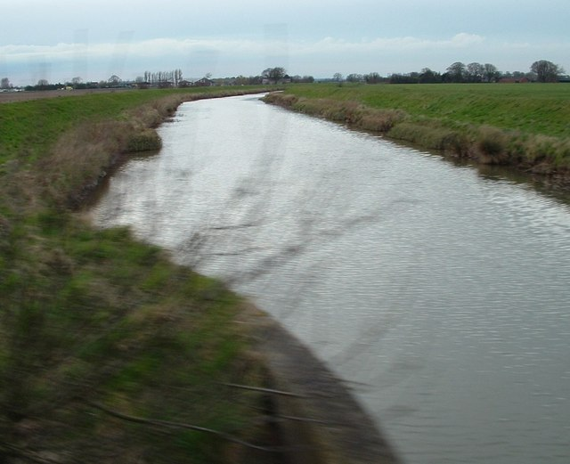 Steeping Relief Channel Looking Northwest toward the A52